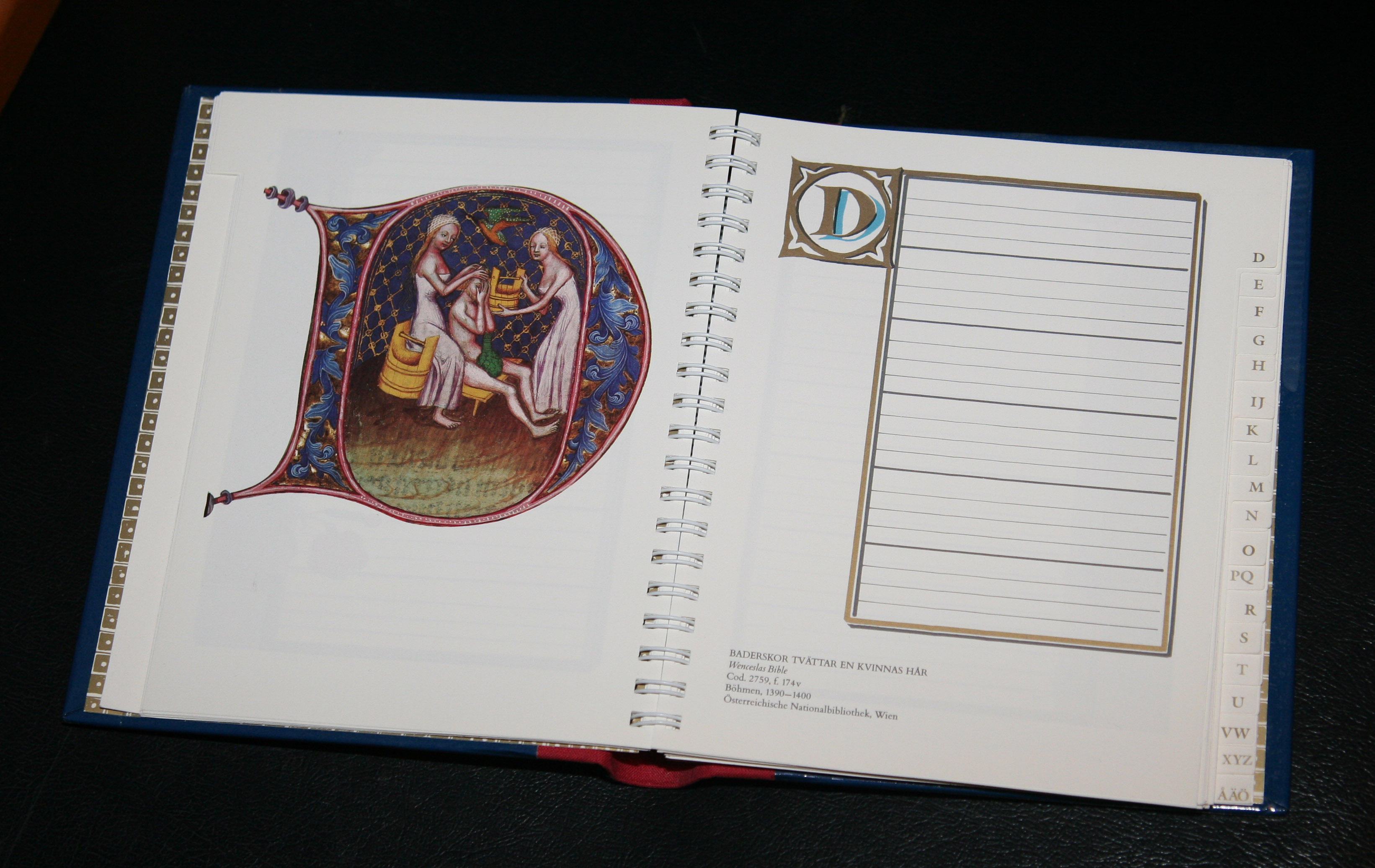 Address book with medieval illustrations